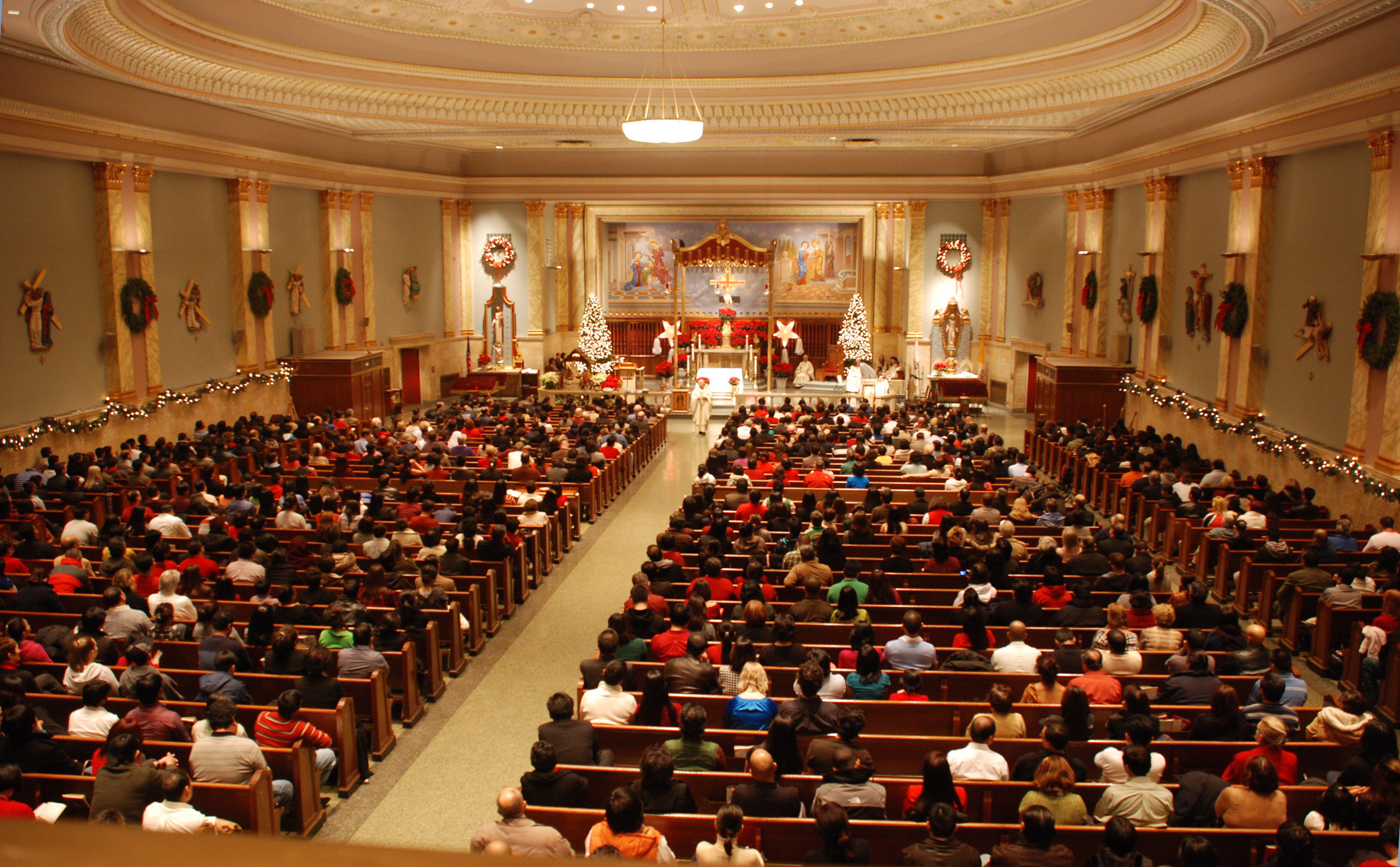 Christmas Midnight Mass, St Sebastian Parish, Woodside NY 2008, church interior